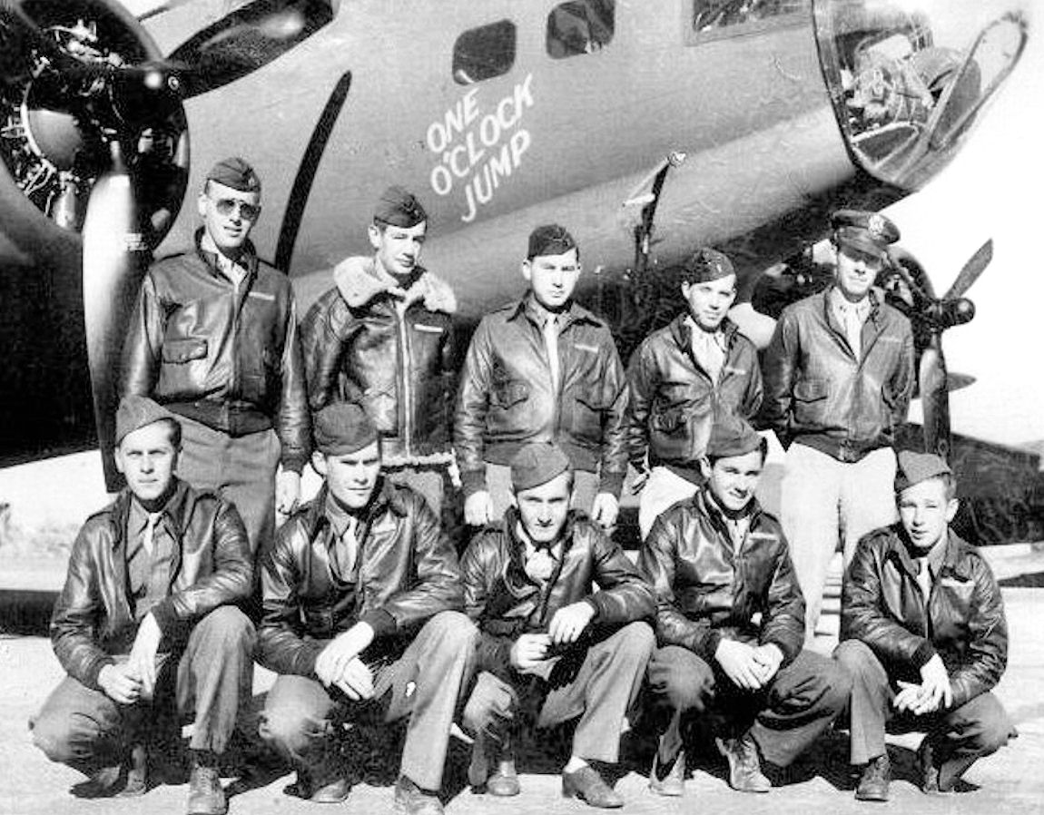 Crew of "One O'Clock Jump", B-17F Flying Fortress 41-24582, assigned to the 358th Bombardment Squadron, 303d Bombardment Group, Molesworth England. Crew identified asː Capt William N Frost [Pilot], 2nd Lt Robert L Mays [CoPilot], 2nd Lt Joe R Phillips [Nav], 2nd Lt Leon W Brownlee [Bomb] TSgt Kenneth G Hildebrand [Eng/tt gun], Sgt Joseph E Powers [Radio], Sgt Floyd J Shaw [Ball], Sgt William S Devine [L Waist], Sgt Billie K Davis [R Waist], Sgt James R Toney, Jr [Tail]. This aircraft was lost on Dec 12, 1942 attacking the Rouen-Sotteville Marshalling Yard in France. Crew fate is unknown